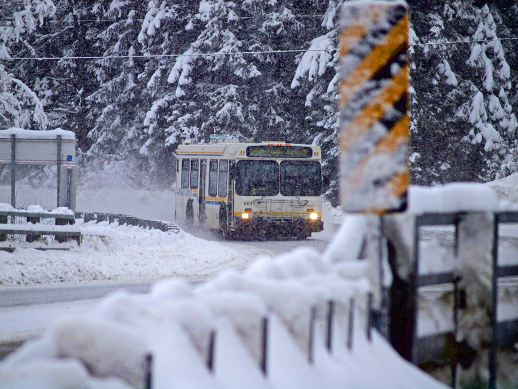 CBJ Capital Transit 'New Flyer' on back loop bridge this snowy winter